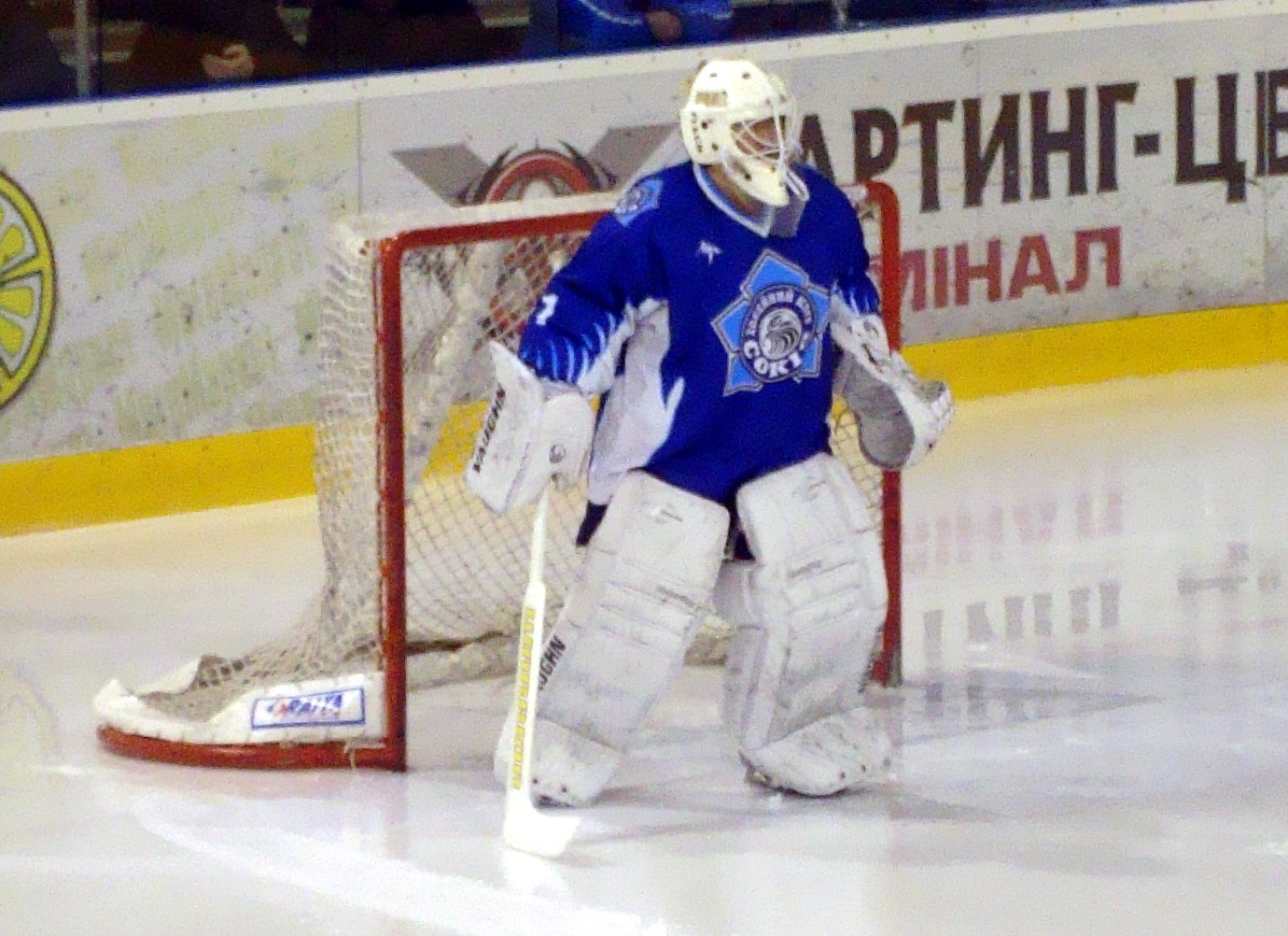 Goaltender Igor Karpenko #1 of the Sokil Kyiv stands during the Belarusian Extraliga game against Shakhtar Soligorsk at Terminal on February 2, 2010 in Brovary, Ukraine. Shakhtar won the game 4-3.